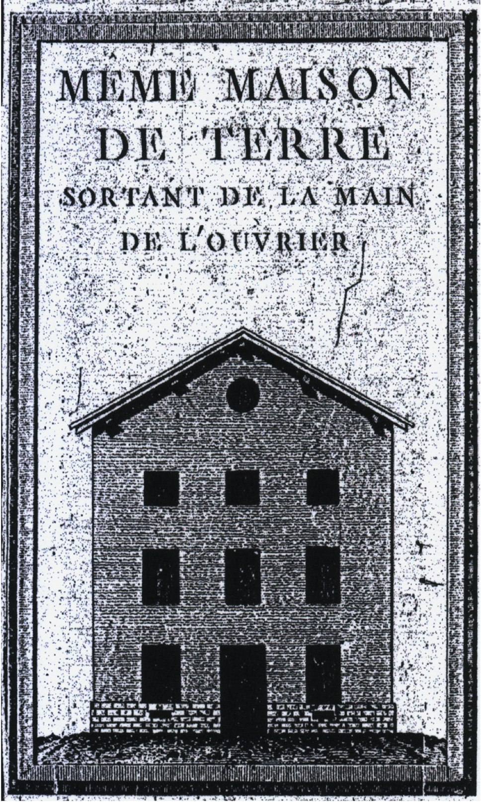 Cointeraux, François 1790. Ecole d'architecture rurale.